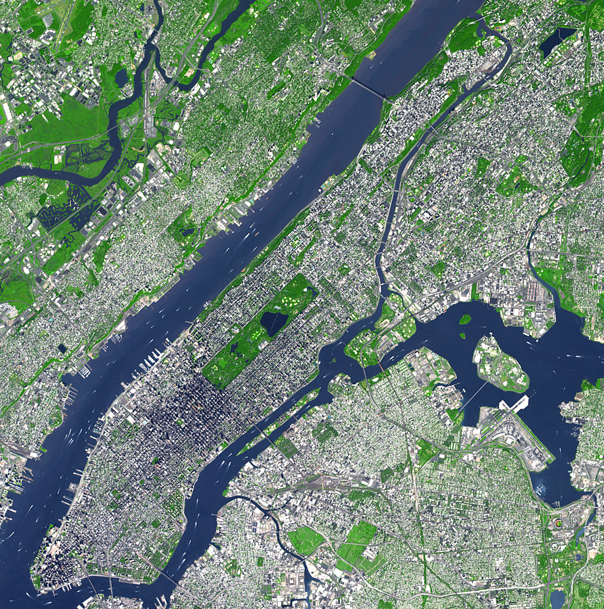 Modified version of File:Aster newyorkcity lrg.jpg to compare to city map of the original Liberty City in Grand Theft Auto